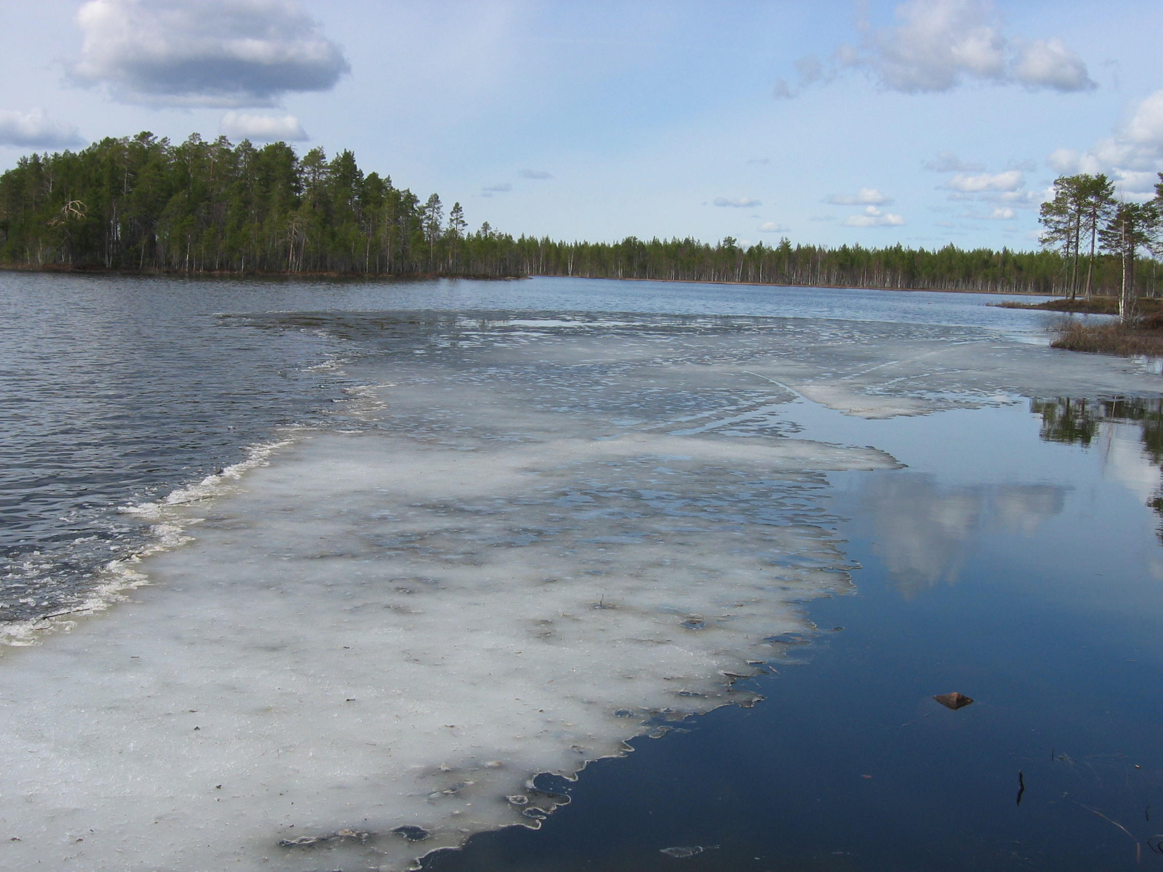 Melting ice in Saarijärvi, Vaala, Finland.